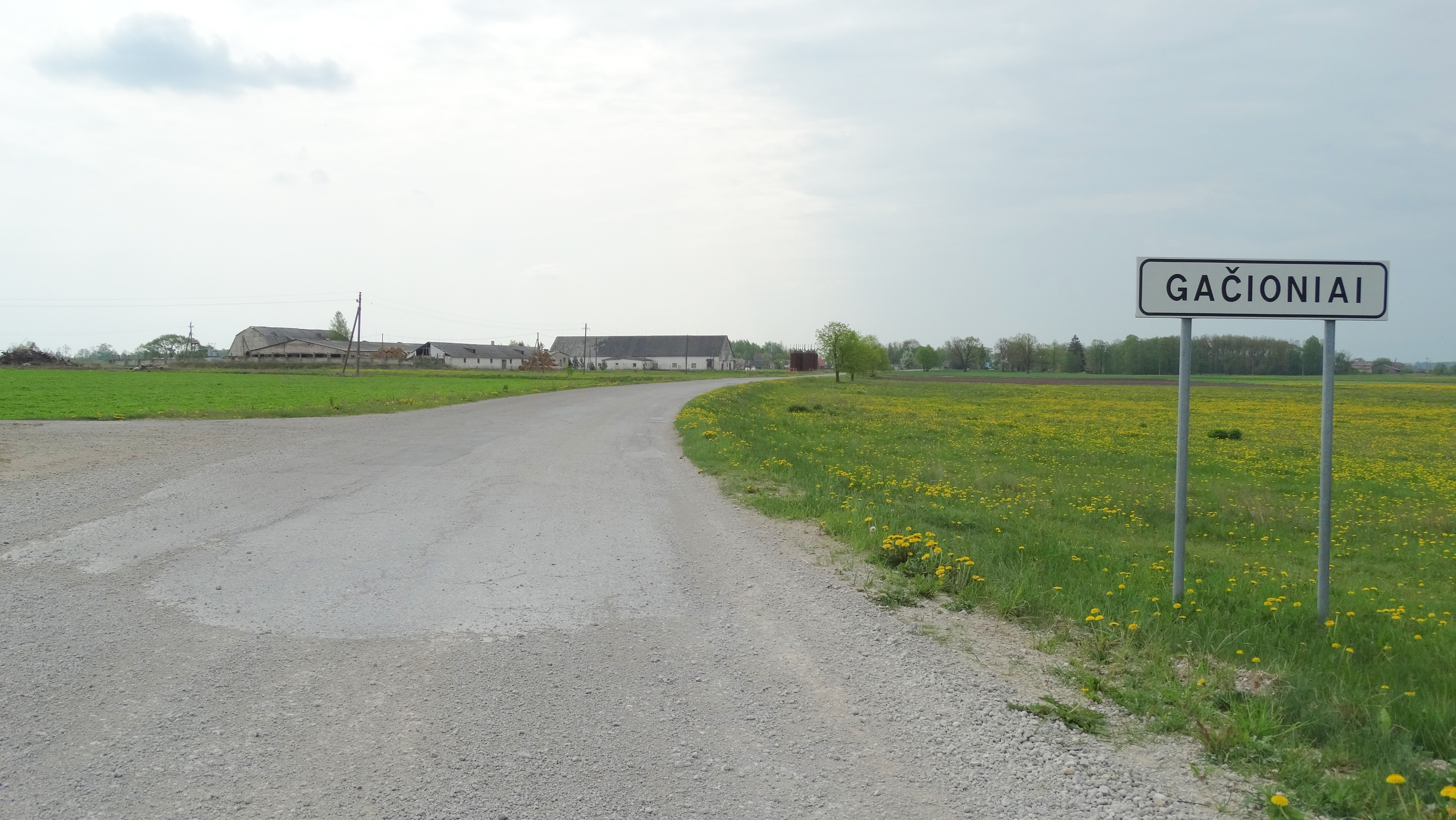 Gačioniai, Pakruojis district, Lithuania